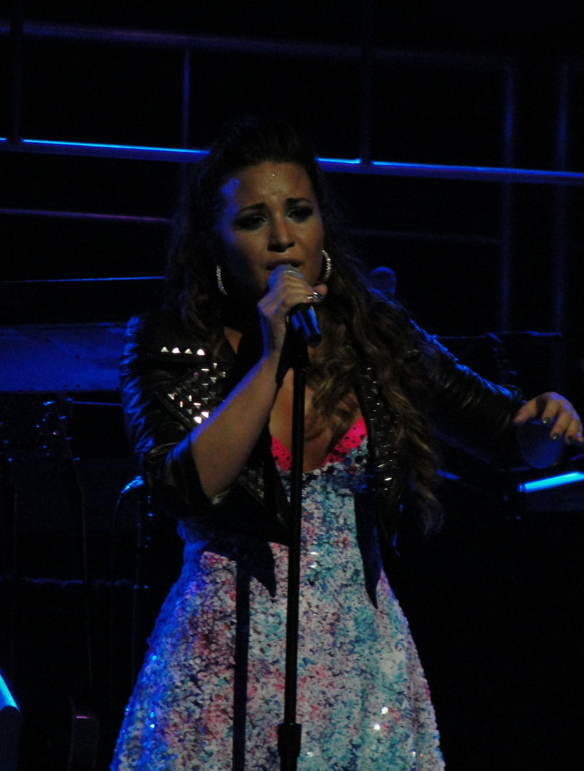 Demi Lovato performing "My Love Is Like a Star" at Club Nokia in Los Angeles.